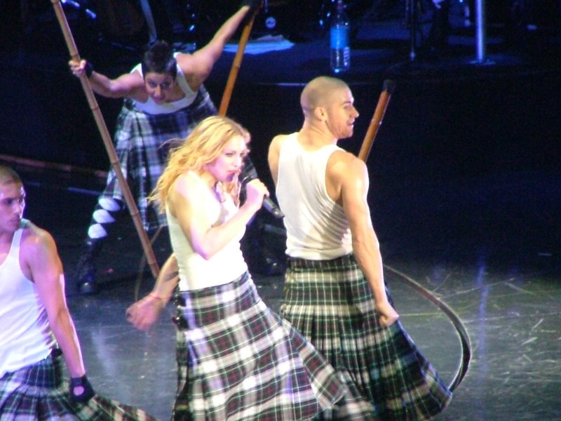 Madonna Concert